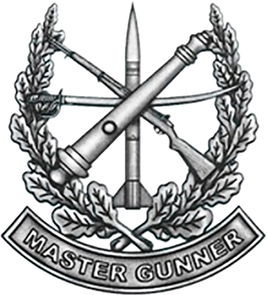 Original concept drawing of the U.S. Army's Master Gunner Badge